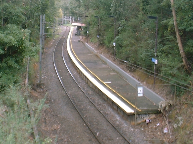 Picture taken myself on 22/4/2006. Anyone can use this image for any reason.